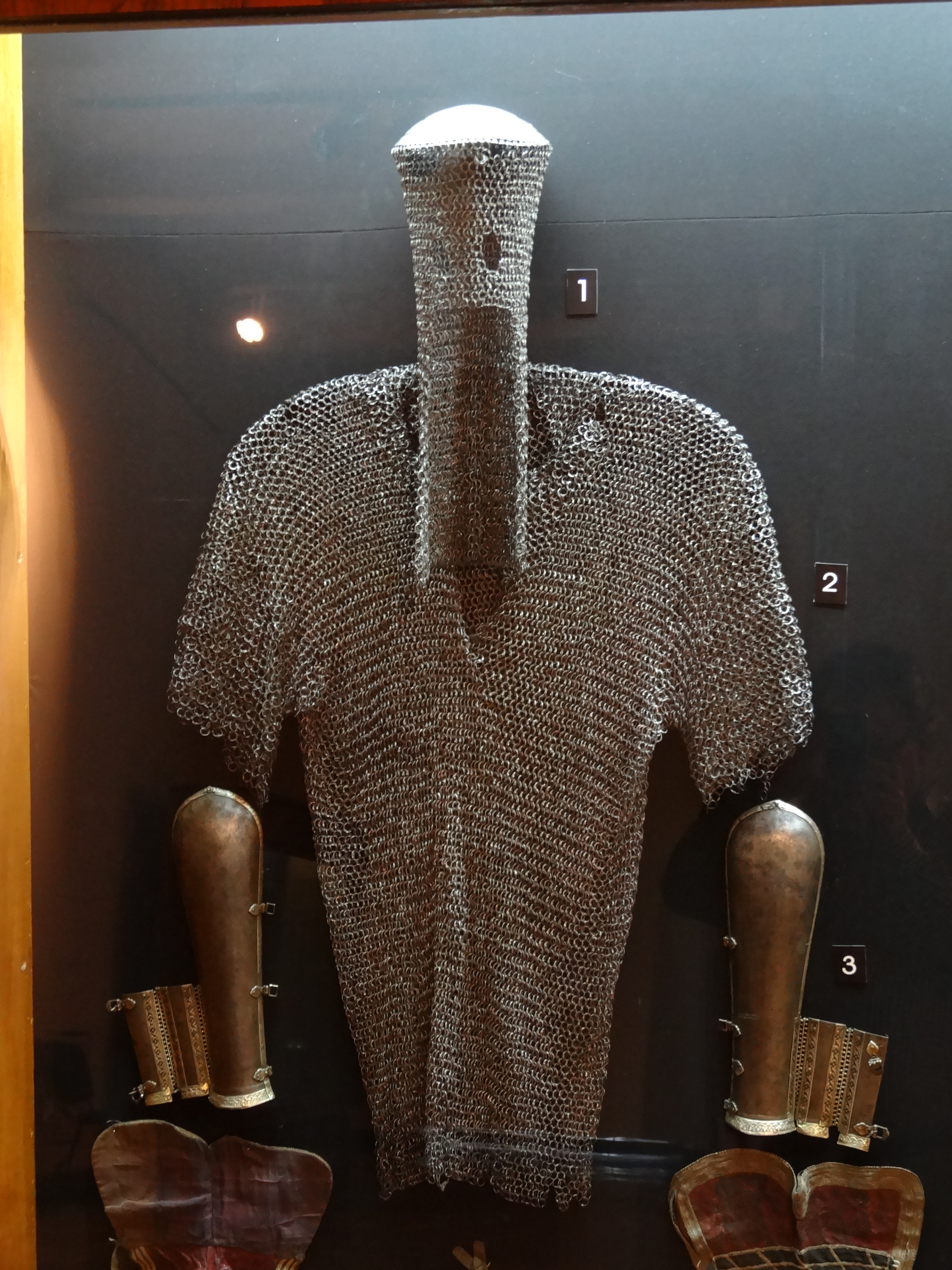 Georgian National Museum, Military collection, with thanks to the museum for allowing photography